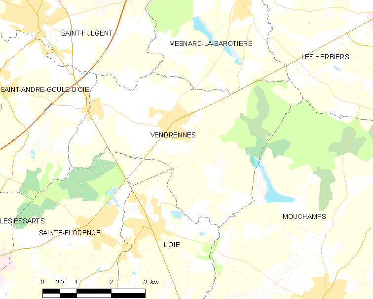 Map of French municipality Vendrennes